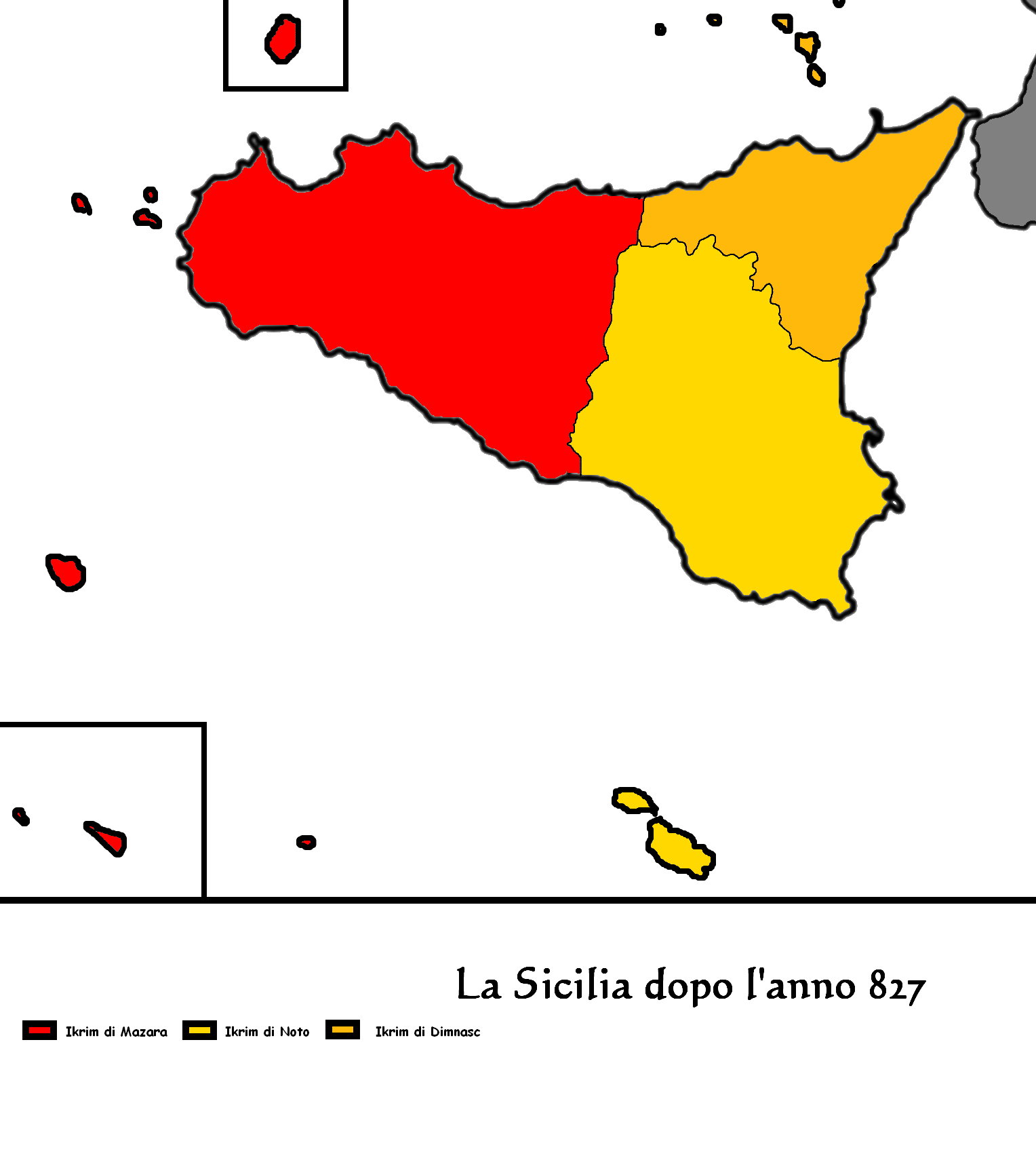 Administrative Map of Sicily during the Aghlabide domination. Source: Michele Amari, Storia dei Musulmani di Sicilia, 1854 vol I